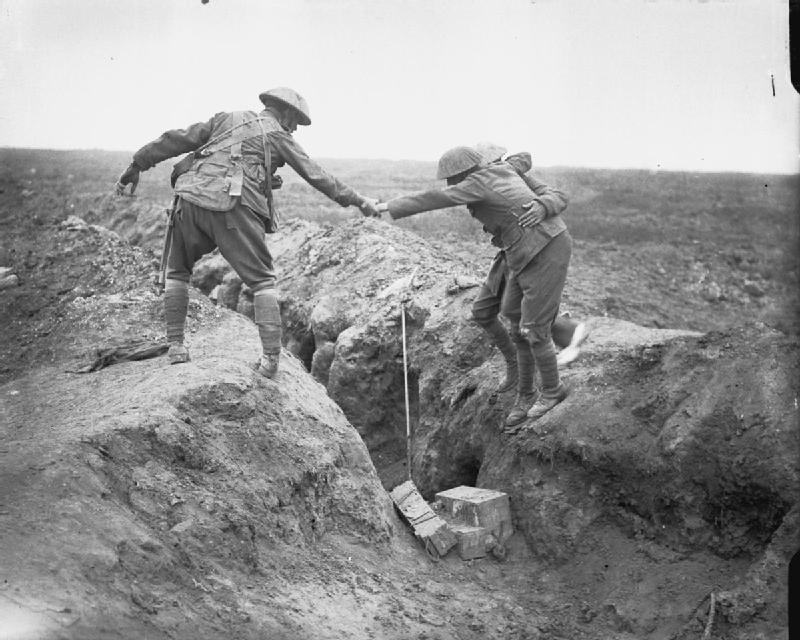 British troops at the the Battle of Ginchy, Somme, France. A soldier helps another supporting a wounded man across a trench as they return from the front line.